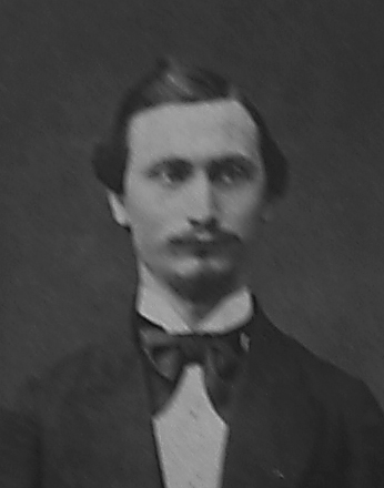 Gabor Gedalja Goitein (b. 3 October 1848 Hőgyész, Komitat Tolna, Hungary; d. 25 April 1883 Posen), Rabbi of Israelitische Religionsgesellschaft in Karlsruhe, talmudist and teacher.